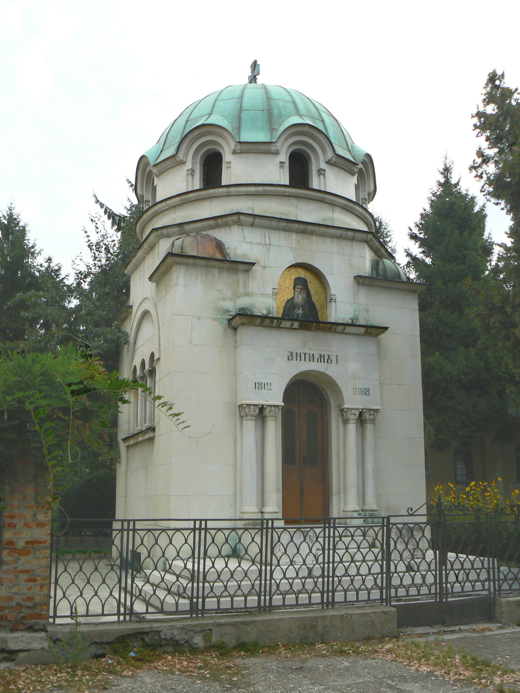 The chapel-tomb of Exarch Antim I in the yard of Vidin bishop's residence. Vidin, Bulgaria